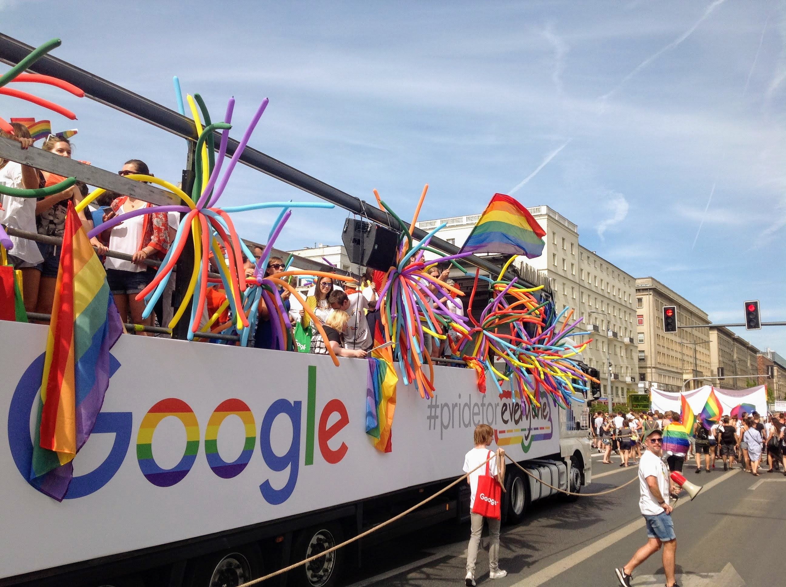 Parada Równości 2018